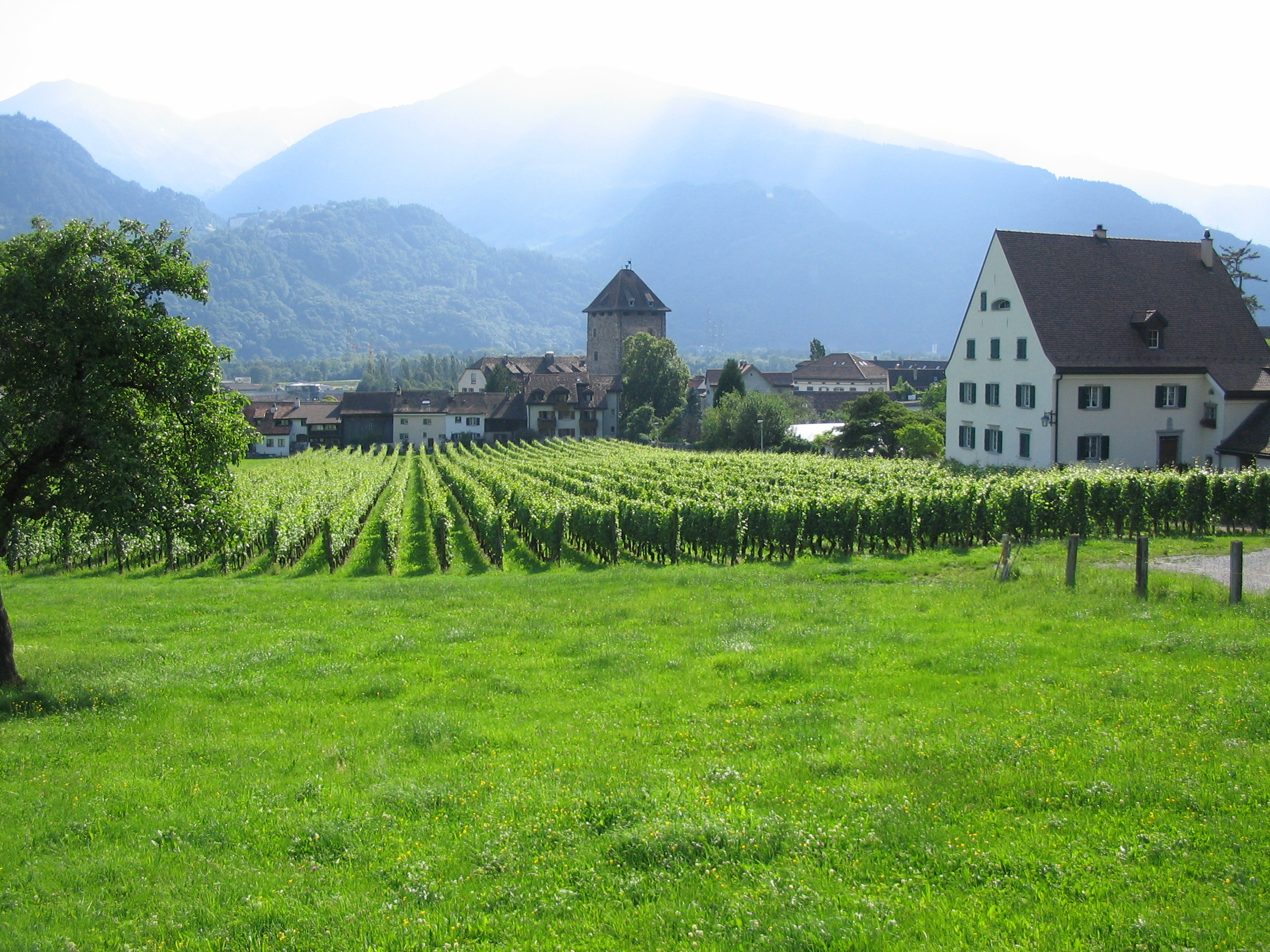 Maienfeld, GR, Switzerland. Schloss Brandis and vineyard